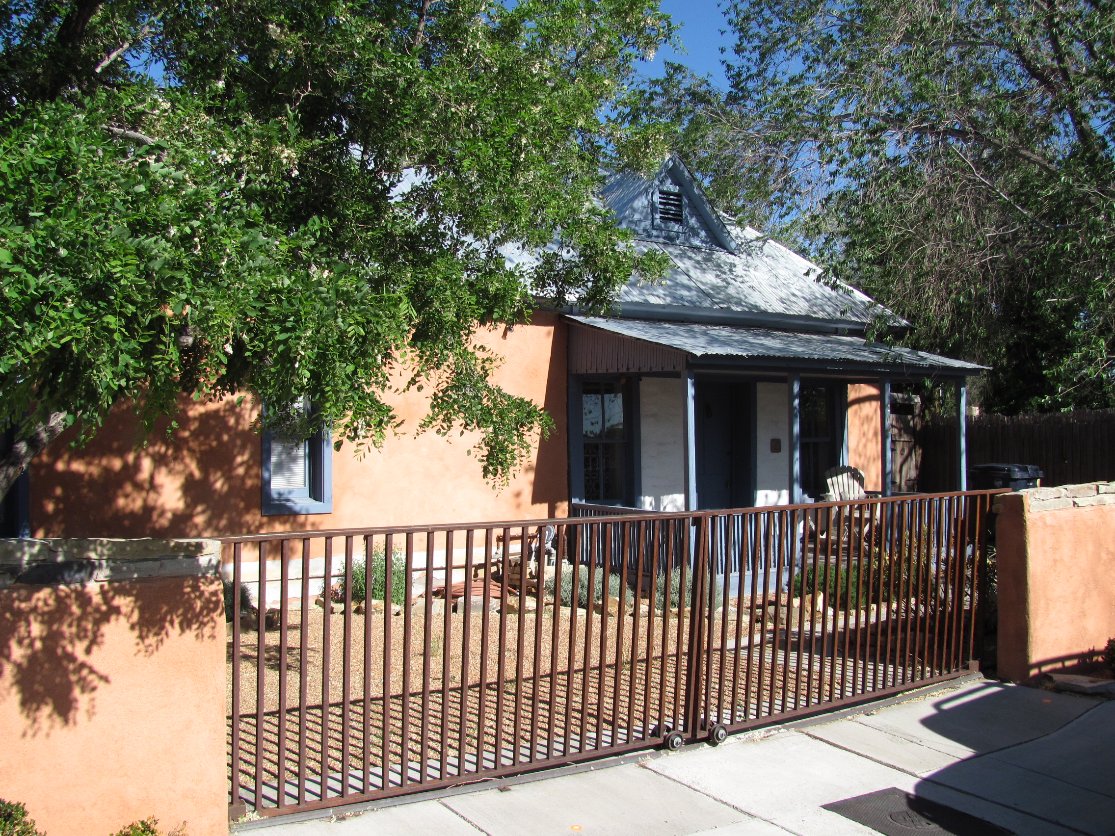 Delfinia Gurule House, Albuquerque New Mexico